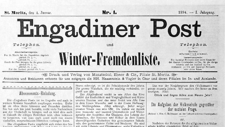 First issue of the Swiss weekly newspaper Engadiner Post